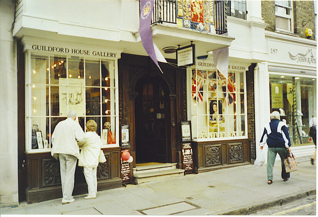 Guildford House. An old town house on Guildford's cobbled High Street, the building today is used by the Borough as an art gallery, shop and tea room. The bunting in the photograph celebrates the Golden Jubilee [2002].